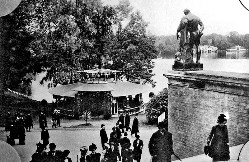 Tsarskoye Selo (Russia), Stages of the Jubilee Exhibition for the 200th anniversary of Tsarskoye Selo.